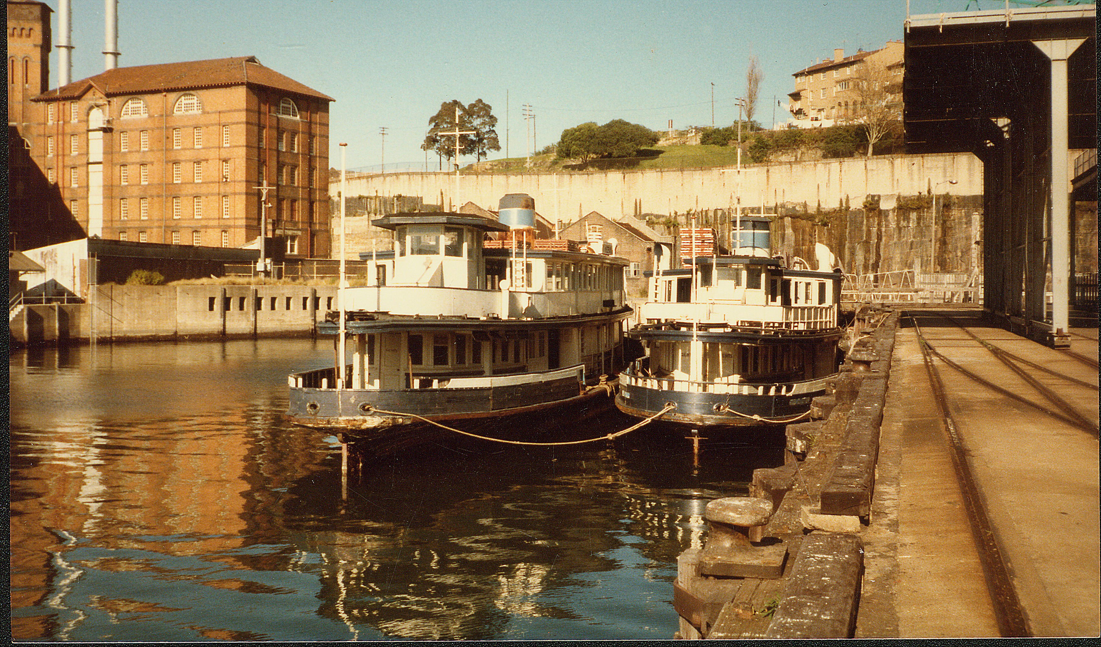 Sydney Ferries KAMERUKA and KARRABEE laid up in Pyrmont 1984. Graeme Andrews, Two old ferries KAMERUKA and KARRABEE, laid up. (01/01/1984 - 31/12/1984), [A-00080234]. City of Sydney Archives, accessed 16 May 2020